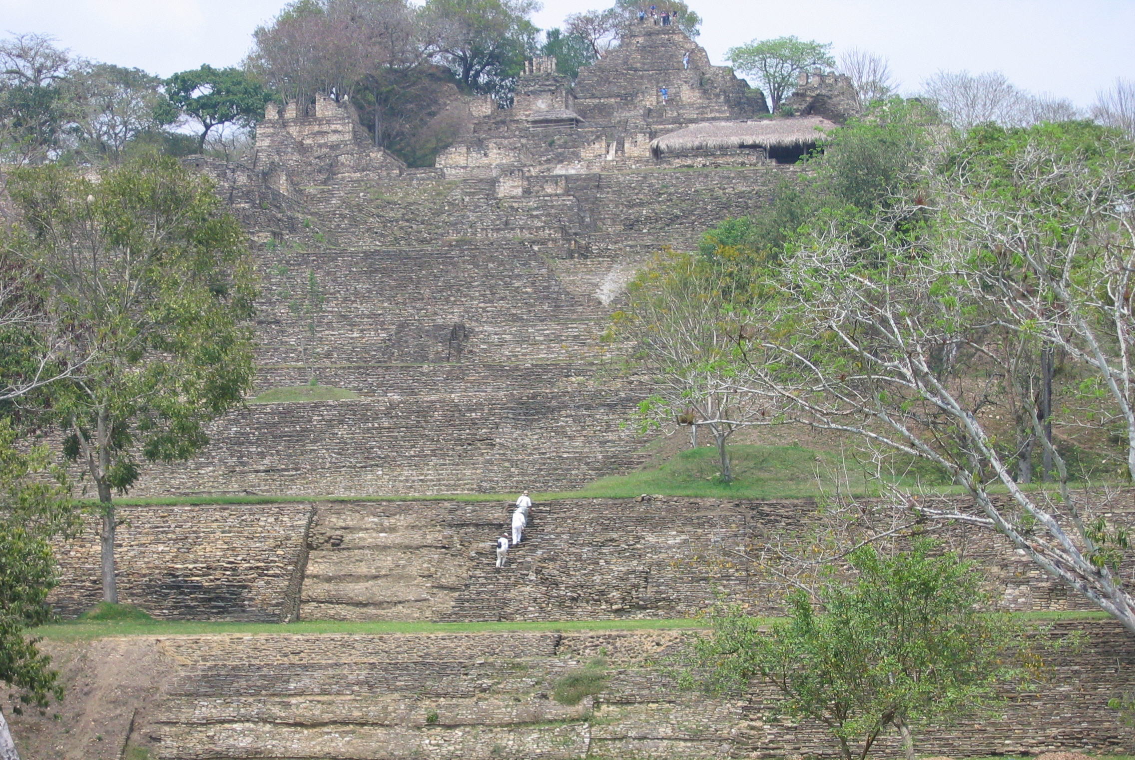 Photo taken by Poppy in March 2005. Tonina - Main hill